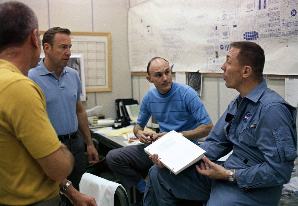 The Apollo 13 crew during a mission briefing